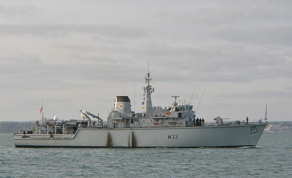 HMS Brocklesby photographed at Portsmouth, UK, on 25 October 2008.